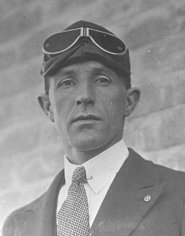 Norman Brearley, australian aviation pioneer is shown in a digital image of a photograh taken in the 1920s. The head and shouders image show him wearing flying goggles, a day suit, tie and collar pin.